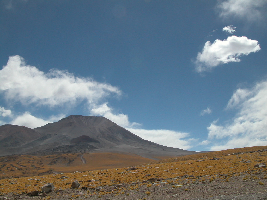 Vegetation on the argentinian side of the border, after passing the Paso de San Francisco.